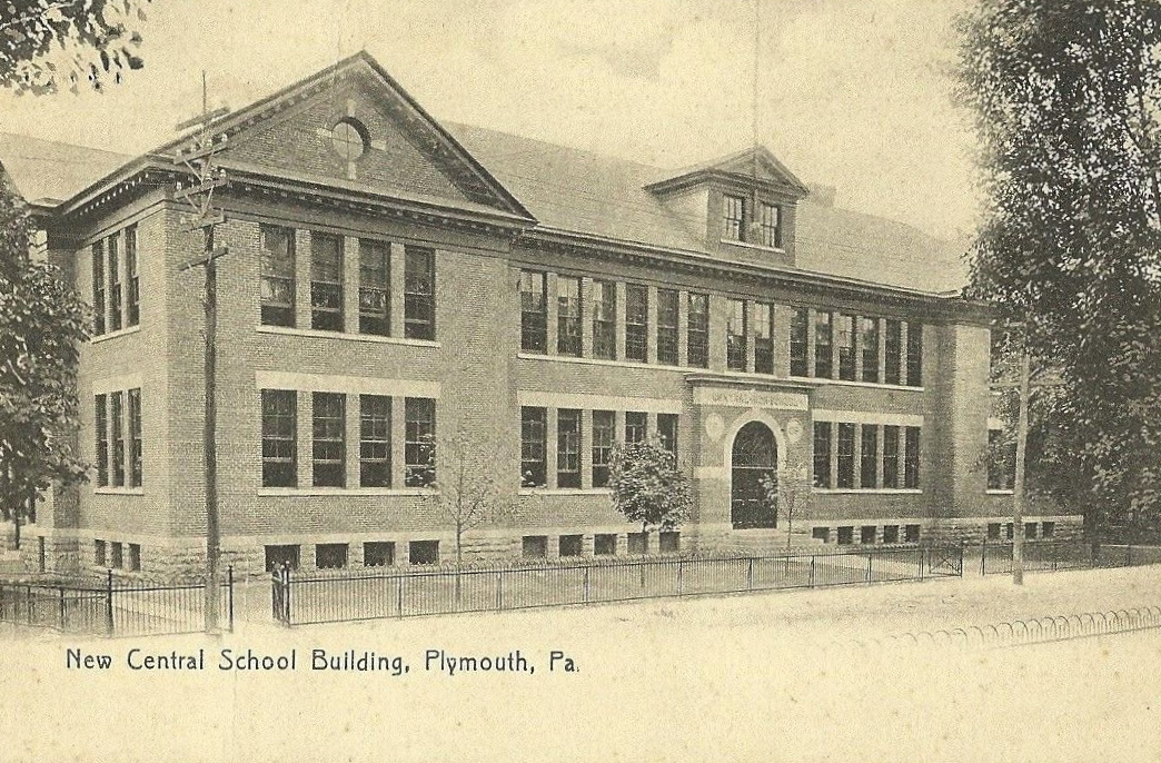 A postcard image of the New Central High School, built in 1906, at Plymouth, PA, as published by W. E. Howland, Plymouth, PA.